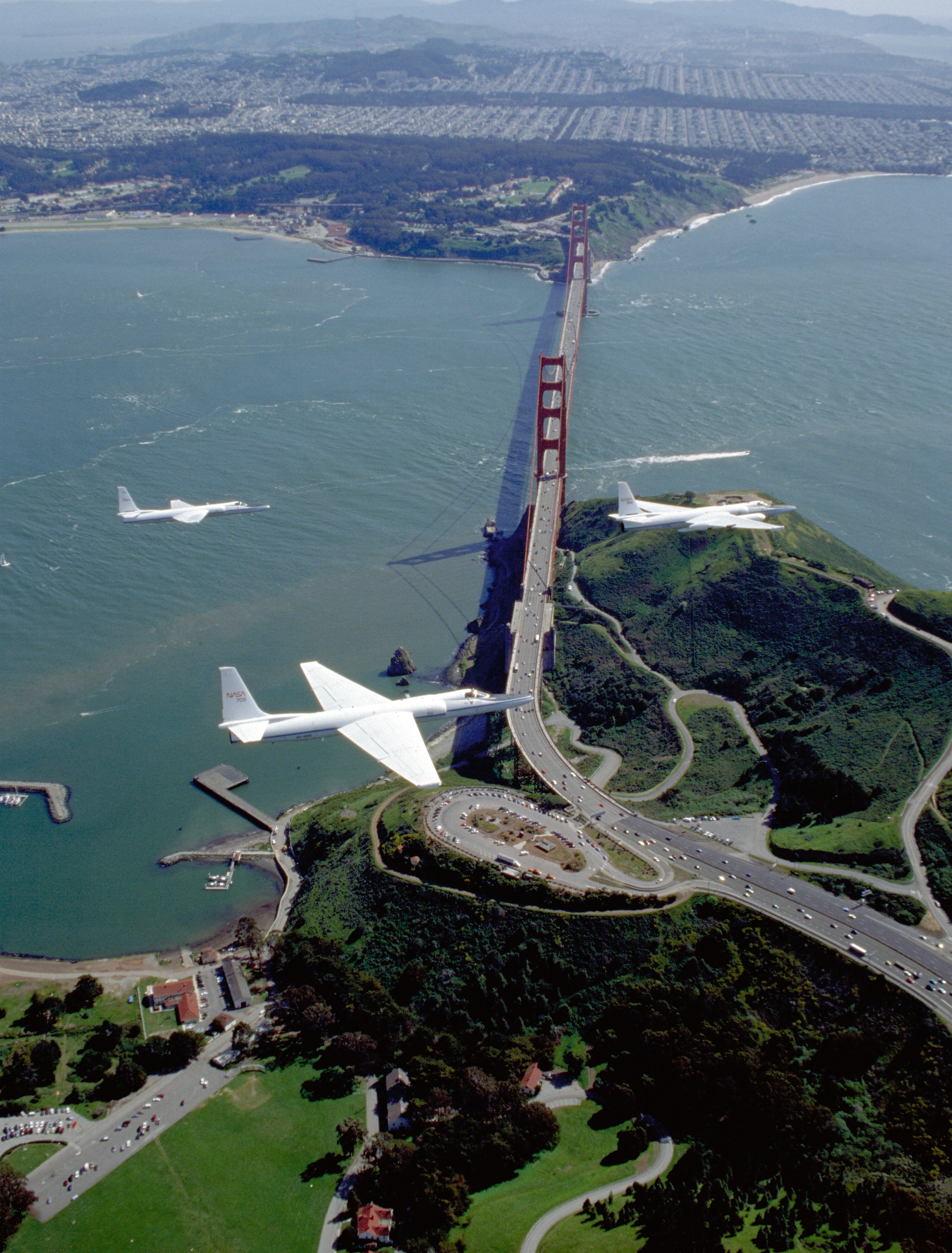 Three ER-2 Aircraft in formation over Golden Gate Bridge, San Francisco, CA on their final flight out of NASA Ames Research Center before redeployment to NASA's Dryden Flight Research Center, CA. From left to right: NASA 706 (s/n 80-1063, later NASA 806, N806NA); NASA 708 (s/n 80-1069, recalled to Air Force in 1996); and NASA 709 (s/n 80-1097, later NASA 809, N809NA).